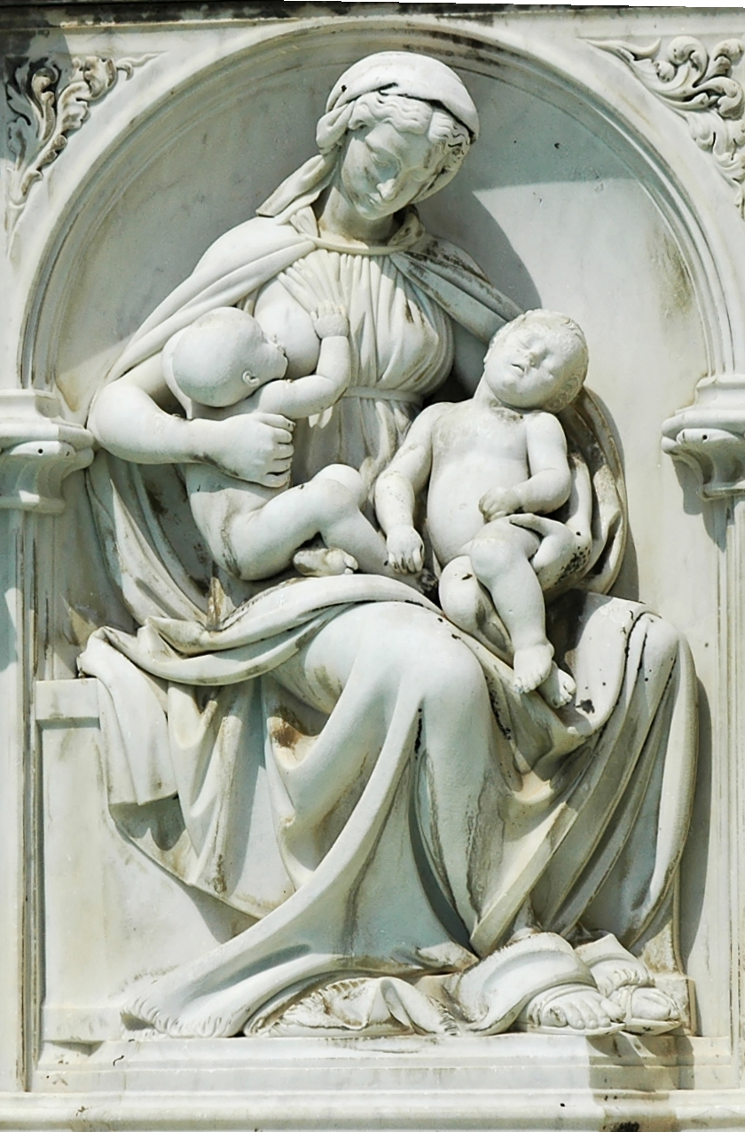 Panel of the Fonte Gaia (Fountain of Joy), piazza del Campo, Siena. The original was the work of Jacopo della Quercia (ca. 1367–1438). Badly deteriorated by long exposure to the elements, the fountain was entirely replaced in 1868 by a copy made by neo-Renaissance sculptor Tito Sarrocchi (1824–1900).